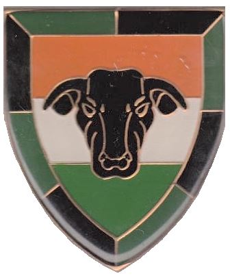 SADF 14 SAI emblem